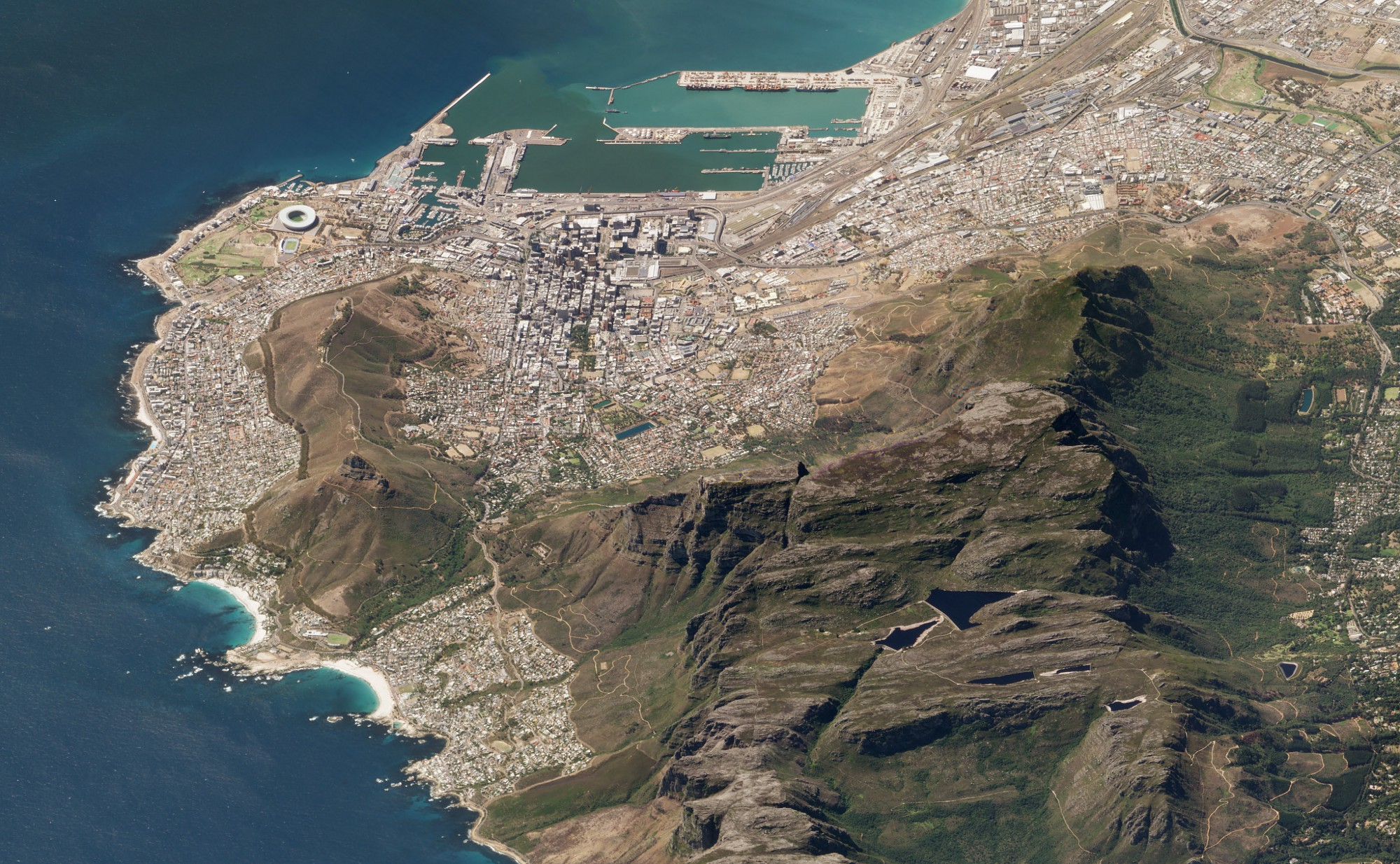 Cape Town, South Africa